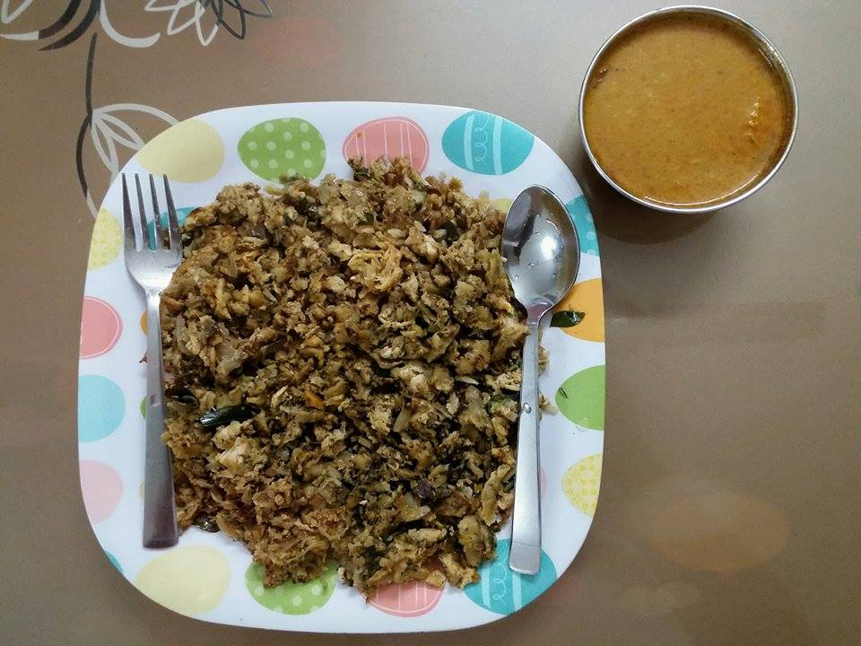 Kothu Parotta (Chicken) as served in Tamil Nadu, India